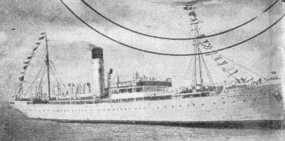 Polish steamer SS Warszawa